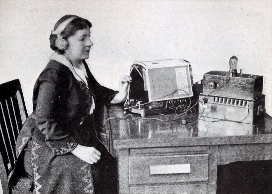 Margaret Hogan, blind from birth, uses a optophone to read a copy of Harper's Magazine, on page 283 of the July 1922 Harper's.